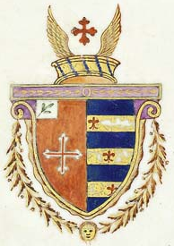 Coat of arms of D. Joaquim Pedro Quintela, Baron of Quintela (c. 1805)